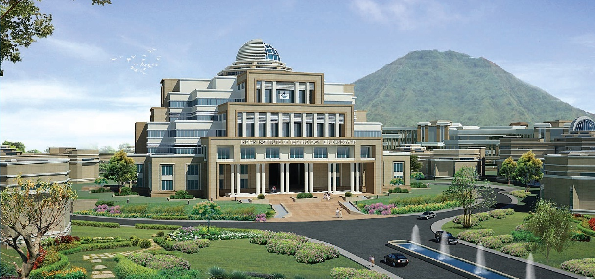 Master Plan of IIT Bhubaneswar Main Building